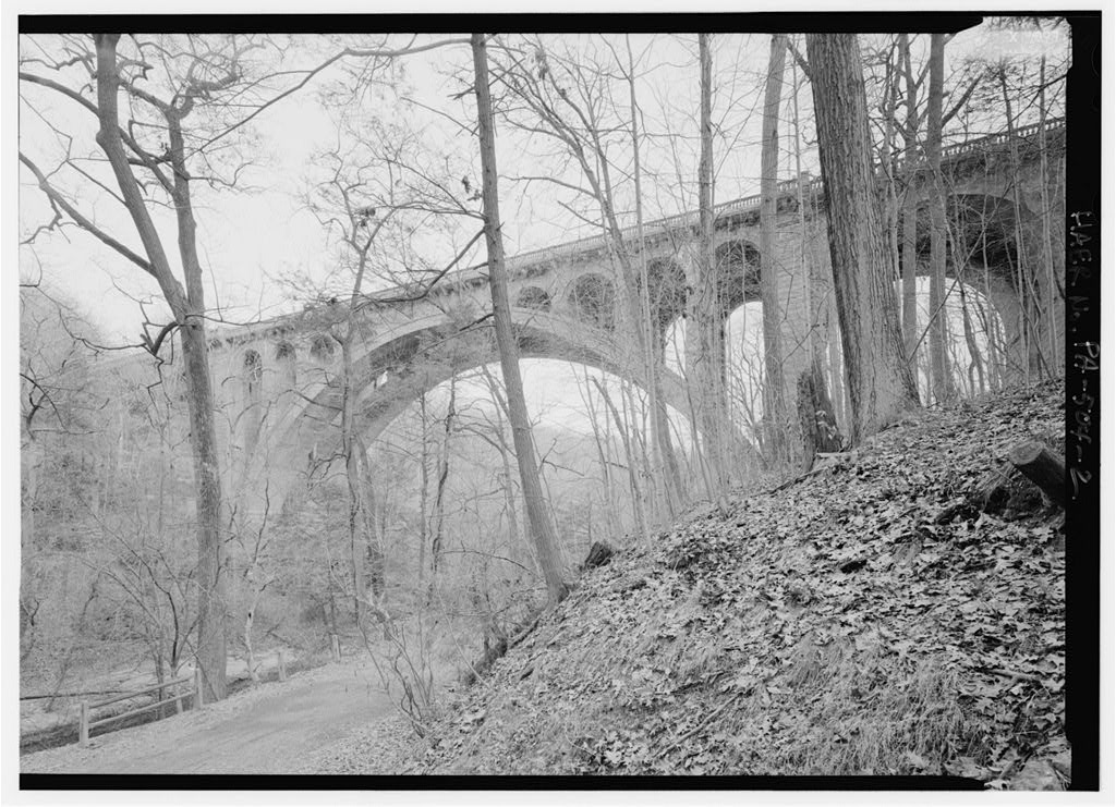 Walnut Lane Bridge, Spanning Wissahickon Creek at Walnut Lane (State Route 4013), Philadelphia, Philadelphia County, PA CALL NUMBER: HAER PA,51-PHILA,731-2